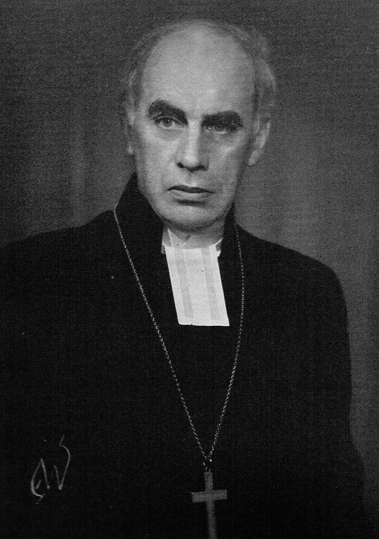 Yngve Brilioth (1891-1959)